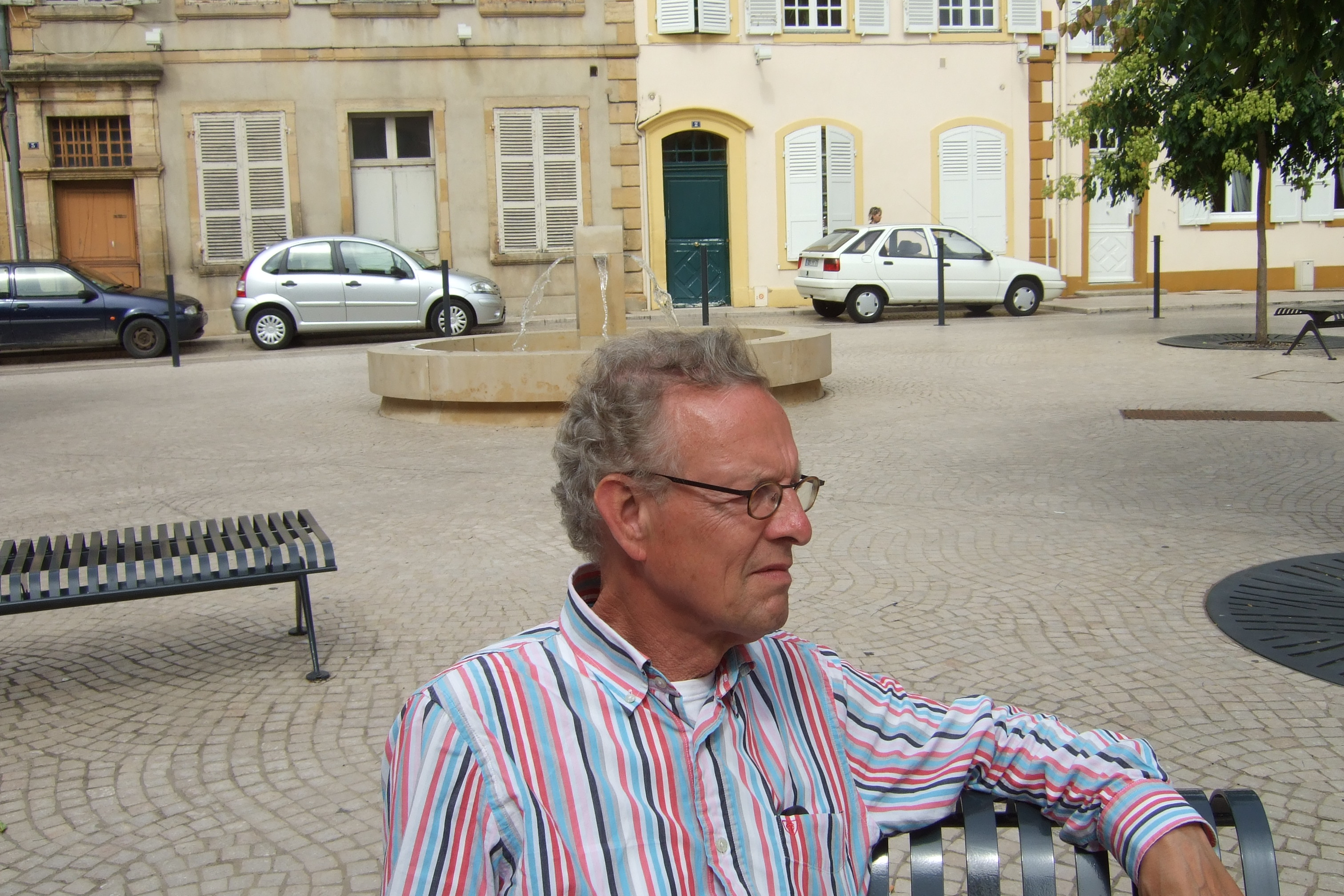 Dutch composer, conductor, pianoplayer